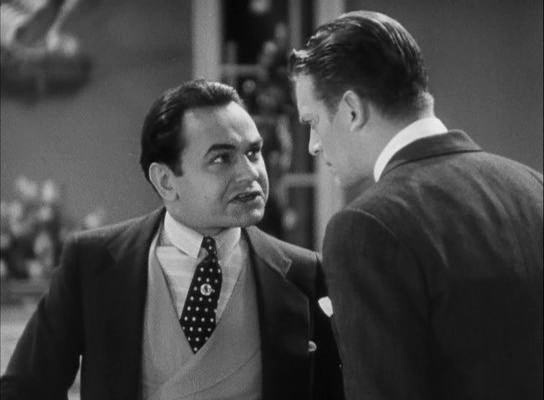 Cropped screenshot from the trailer for the 1931 film Little Caesar (1931).